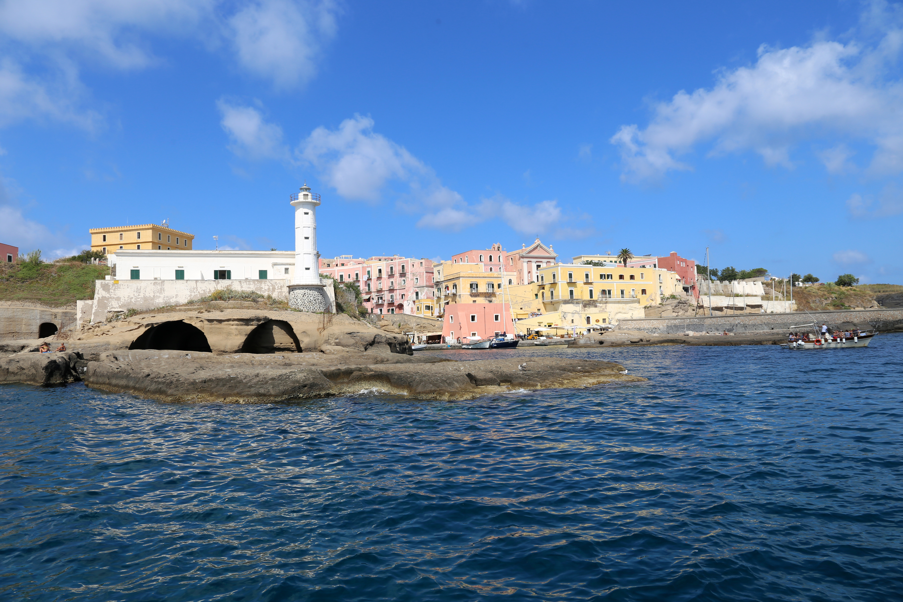 Ventotene (island)